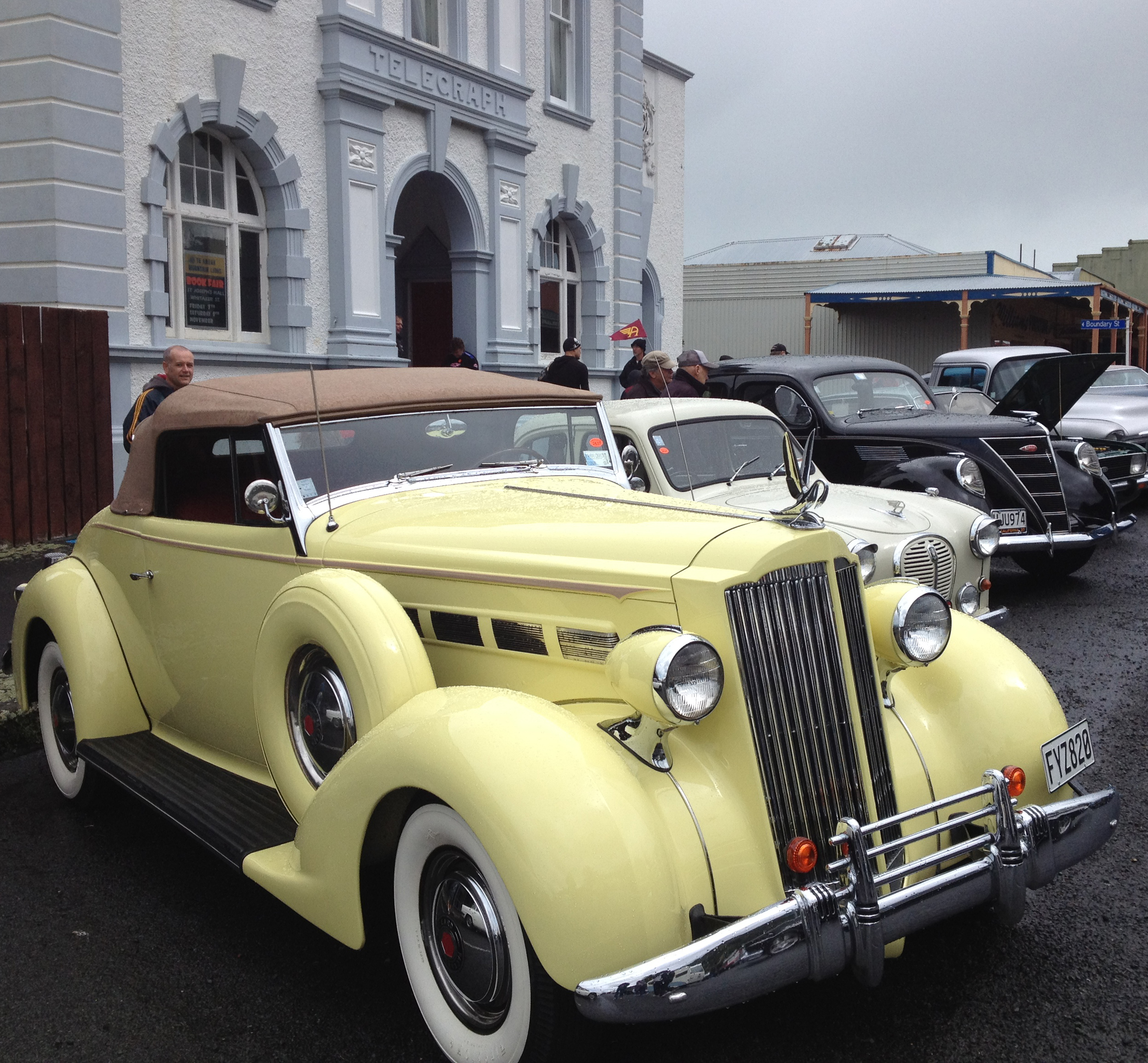 Vintage yellow car outside Telegraph Building Te Aroha, 2014 Cruise